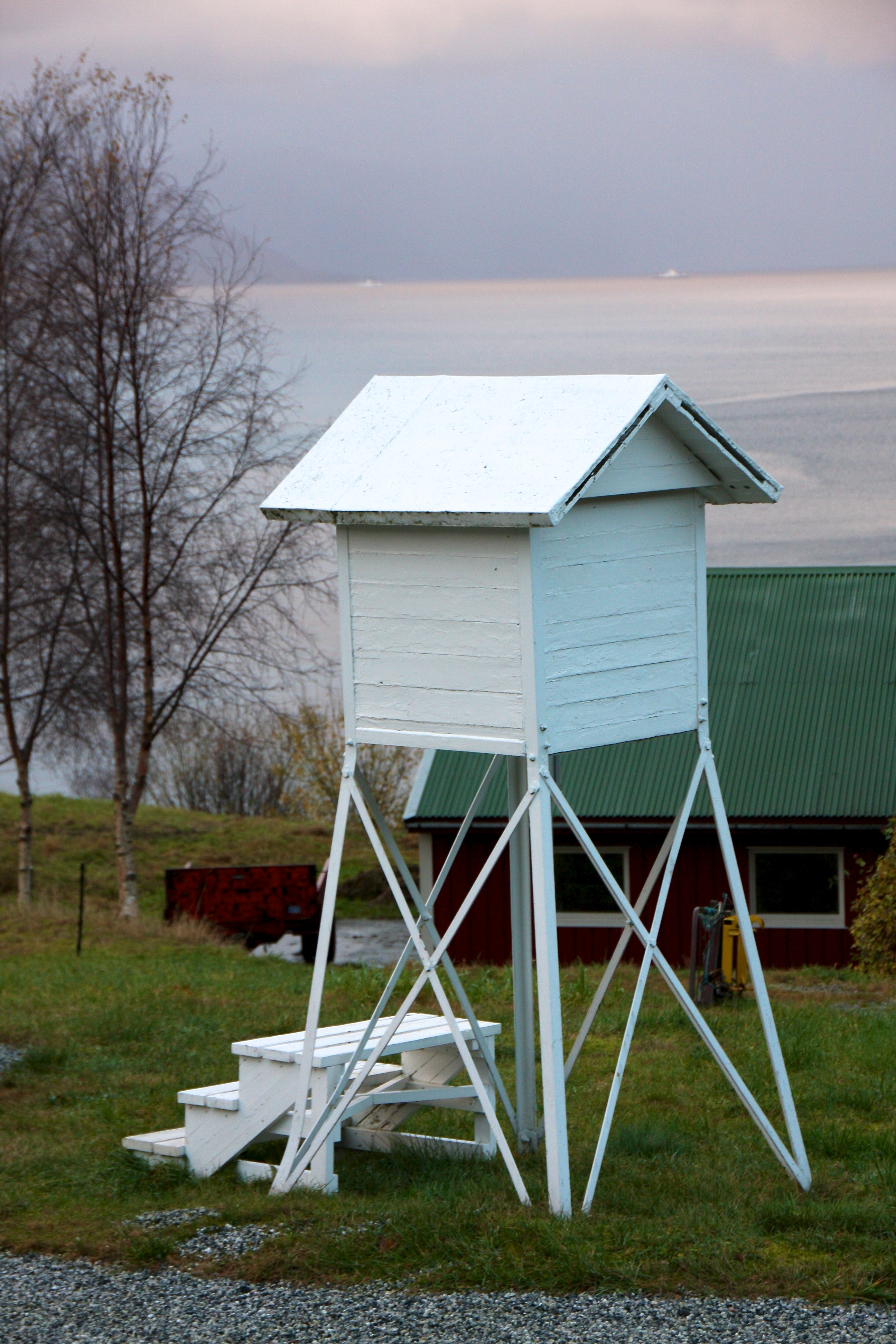 Takle in Gulen municipality, Norway.